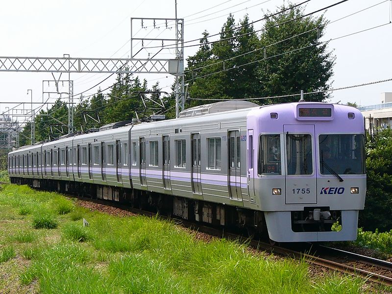 Keio Railway 1000 series EMU set 1705 near Takaido Station on the Keio Inokashira Line